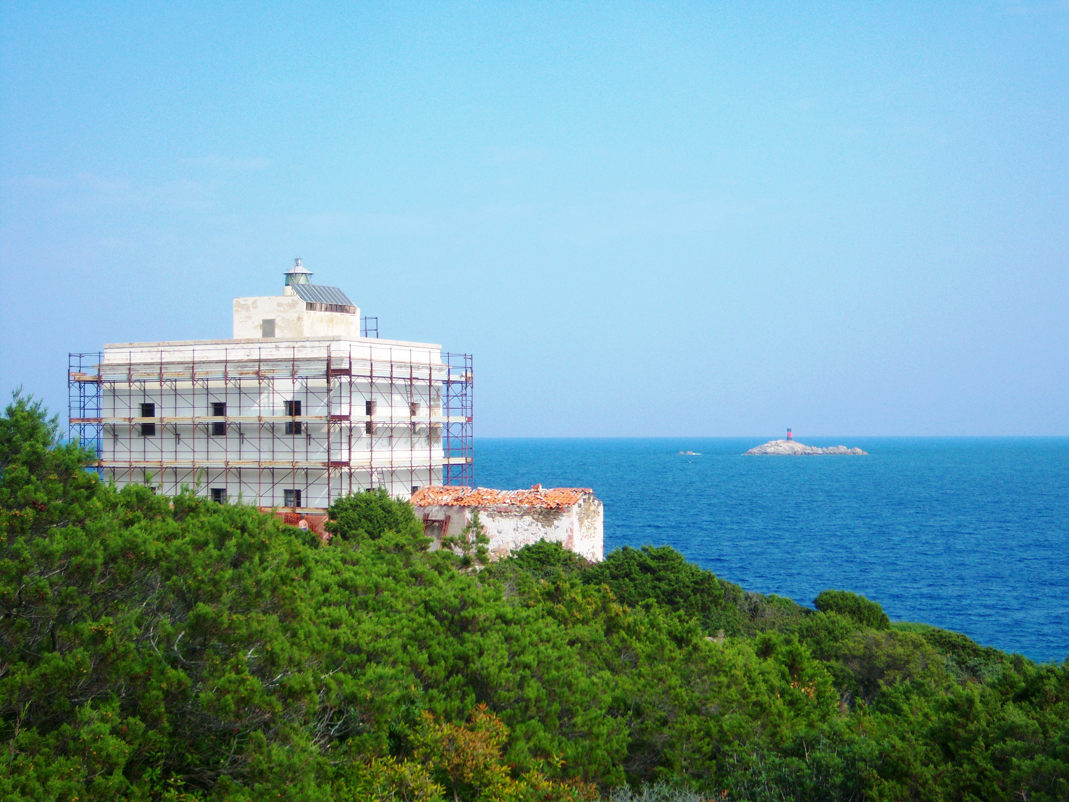 Santa Maria's Island Old Military Lighthouse